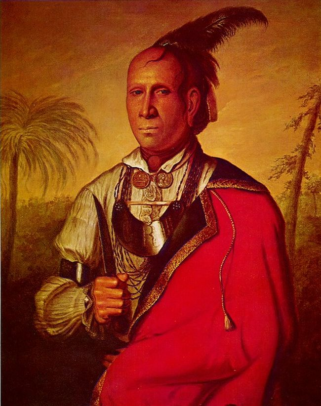 Portrait of Cherokee leader Standing Turkey(Cunne Shote)